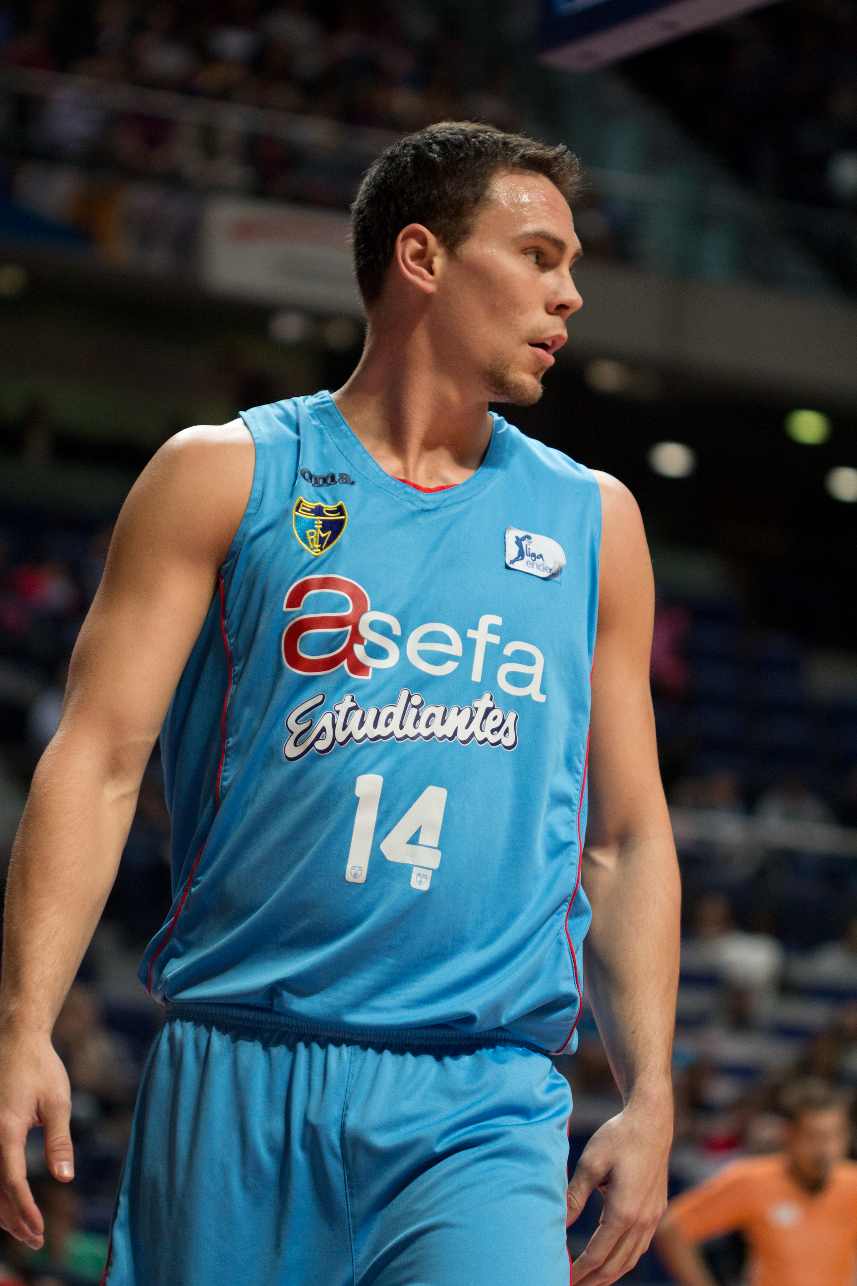 Kyle Kuric. Game Estudiantes vs Unicaja Málaga.